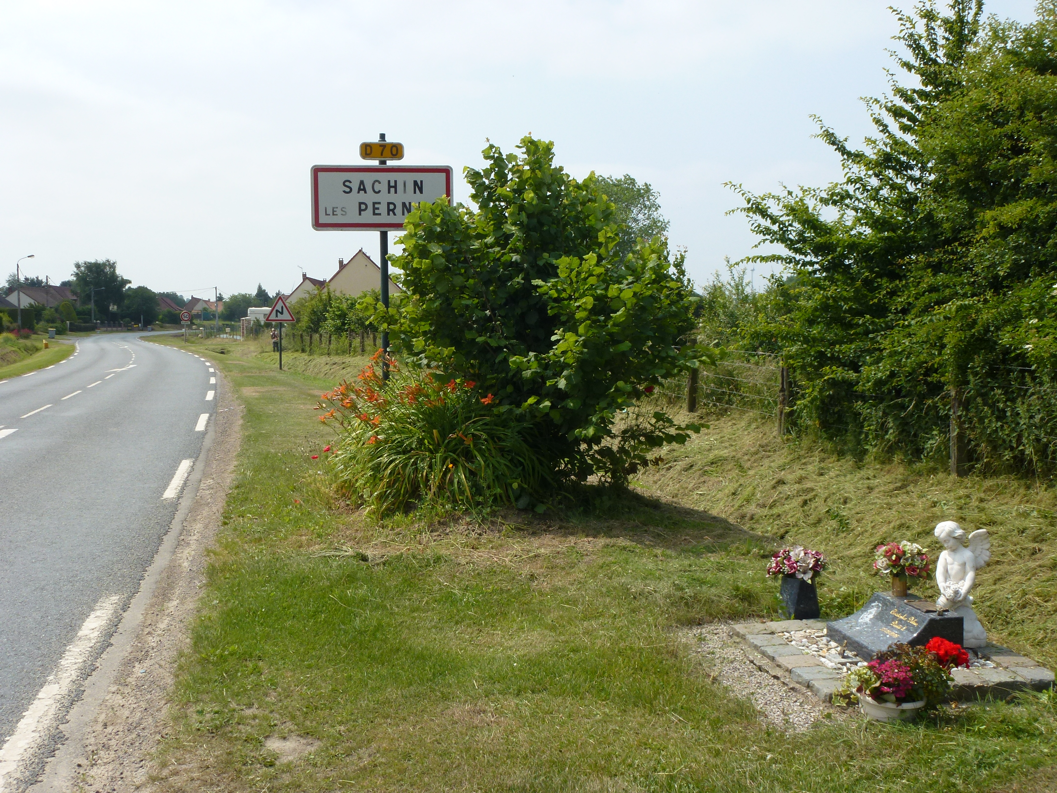 Sachin (Pas-de-Calais, Fr) city limit sign, memorial ange